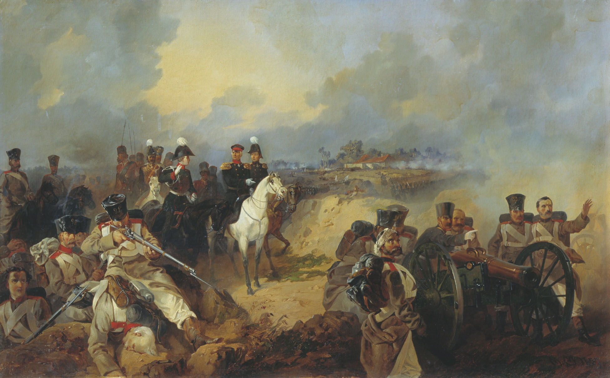 Battle of Montmirail